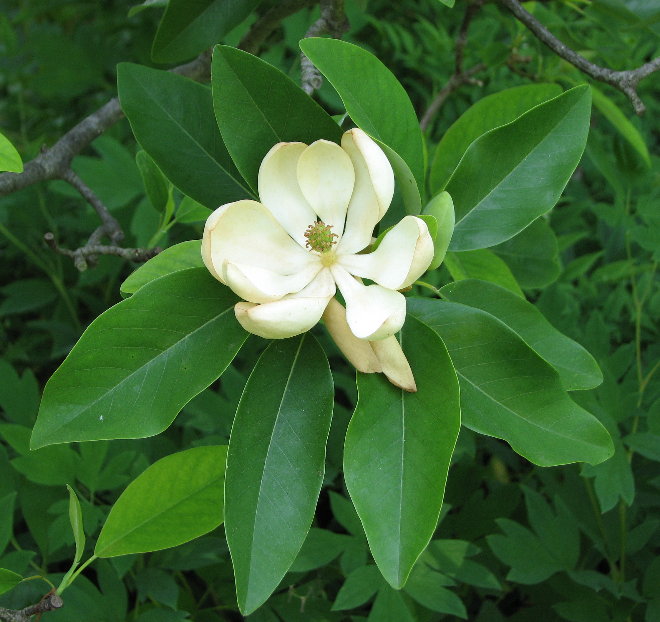 Picture of the flower on the Sweetbay Magnoliaen (Magnolia virginiana en . Photo taken in the near the Tennis Court Garden at the Chanticleer Garden where the species was identified.